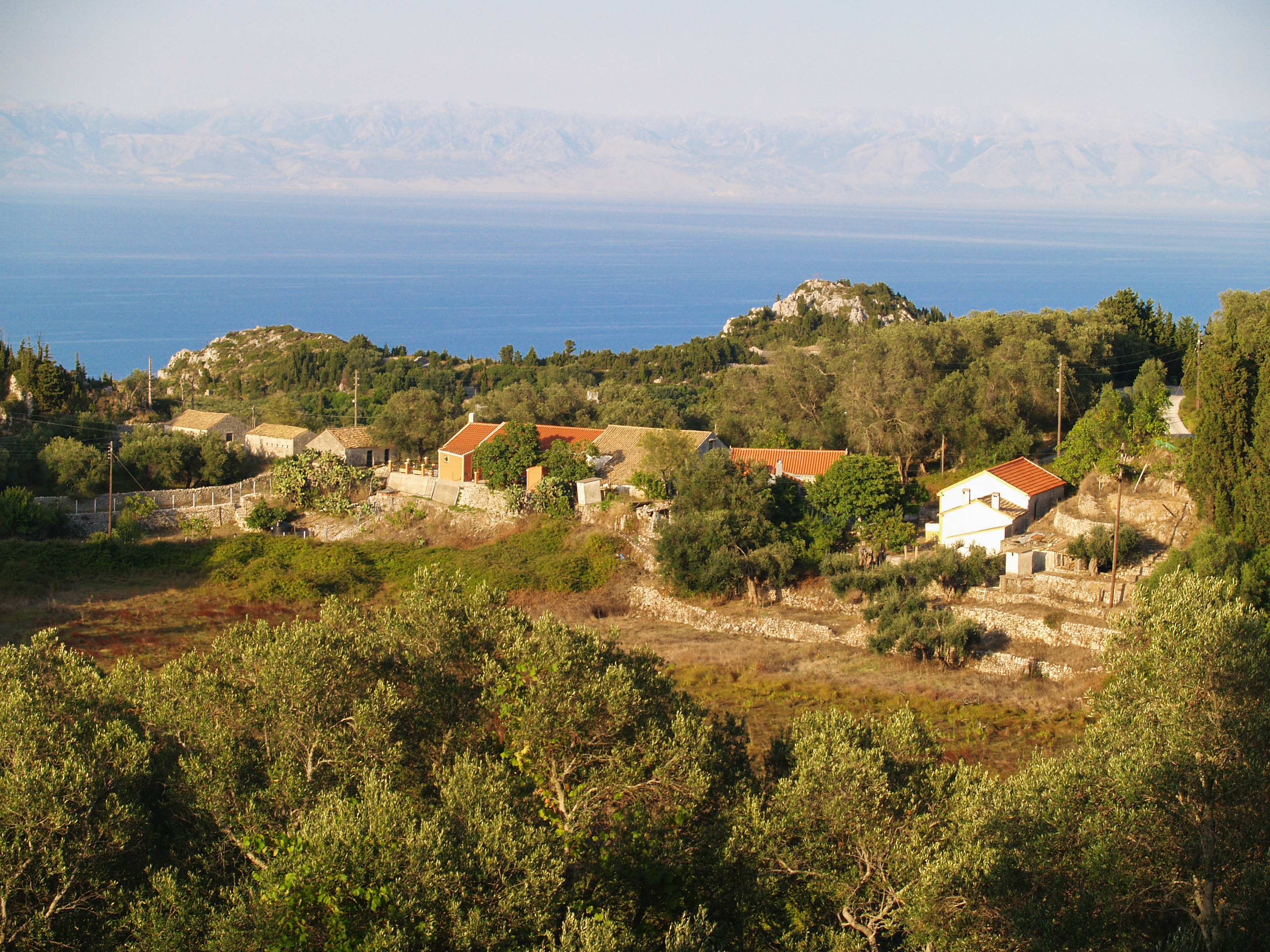 afternoon in Dafni